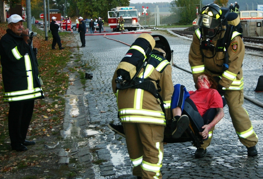 Ansbach Tests Force Protection, Emergency Response Capabilities. Host nation responders supported Ansbach during the garrison\'s exercise held Oct. 15-17 on Katterbach Kaserne.